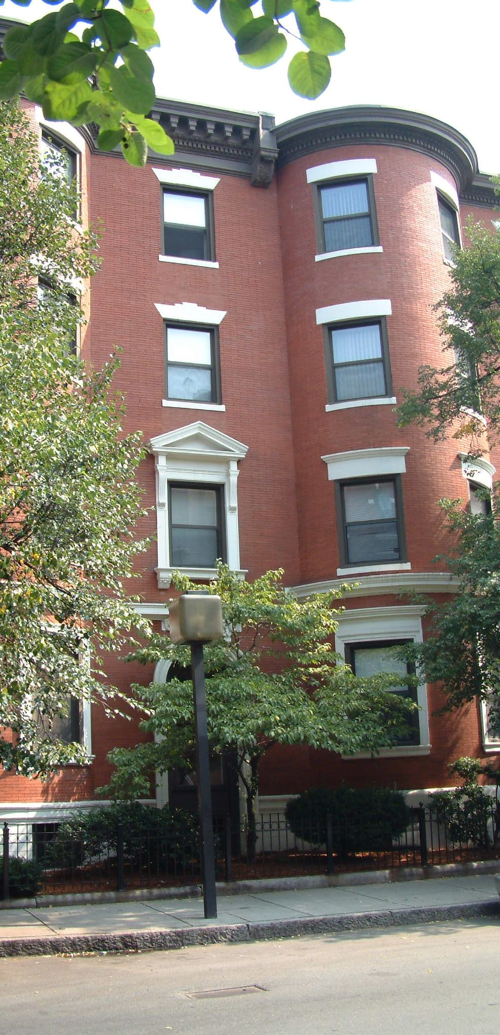 own Photograph Gainsborough street Boston July 2004 Doctorpete 17:26, 25 November 2006 (UTC)